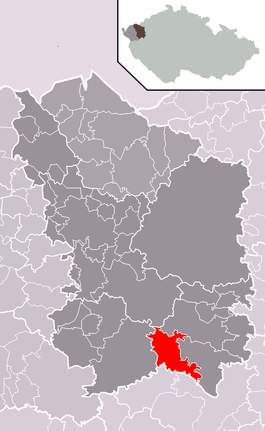 Location of Štědrá municipality within Karlovy Vary District and administrative area of Karlovy Vary as a Municipality with Extended Competence.